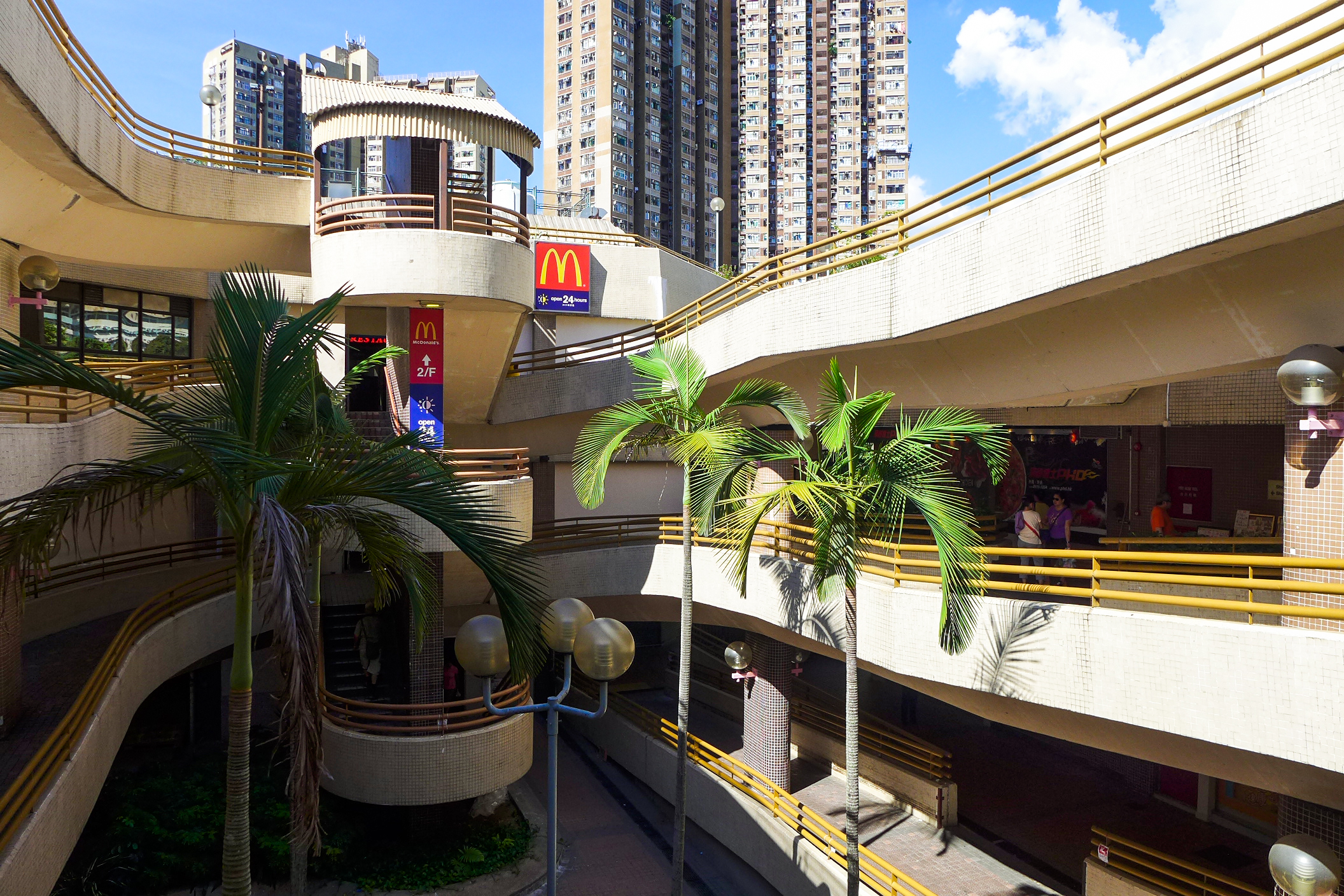 Hin Keng Shopping Centre